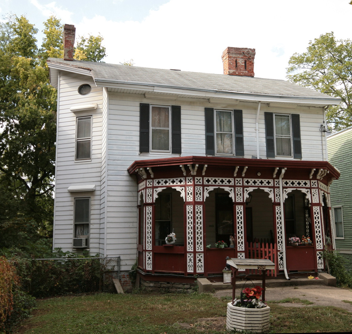 Bates Building in Cincinnati, OH. Photo by Greg Hume